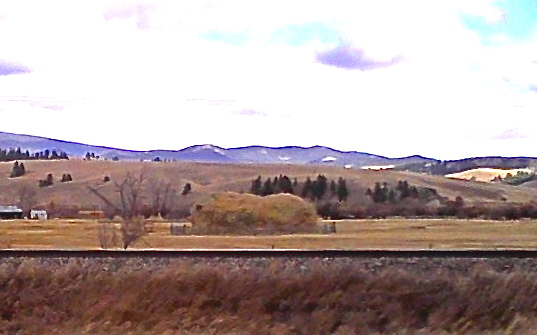 Haystack created with a beaverslide hay stacker, near Avon, Montana